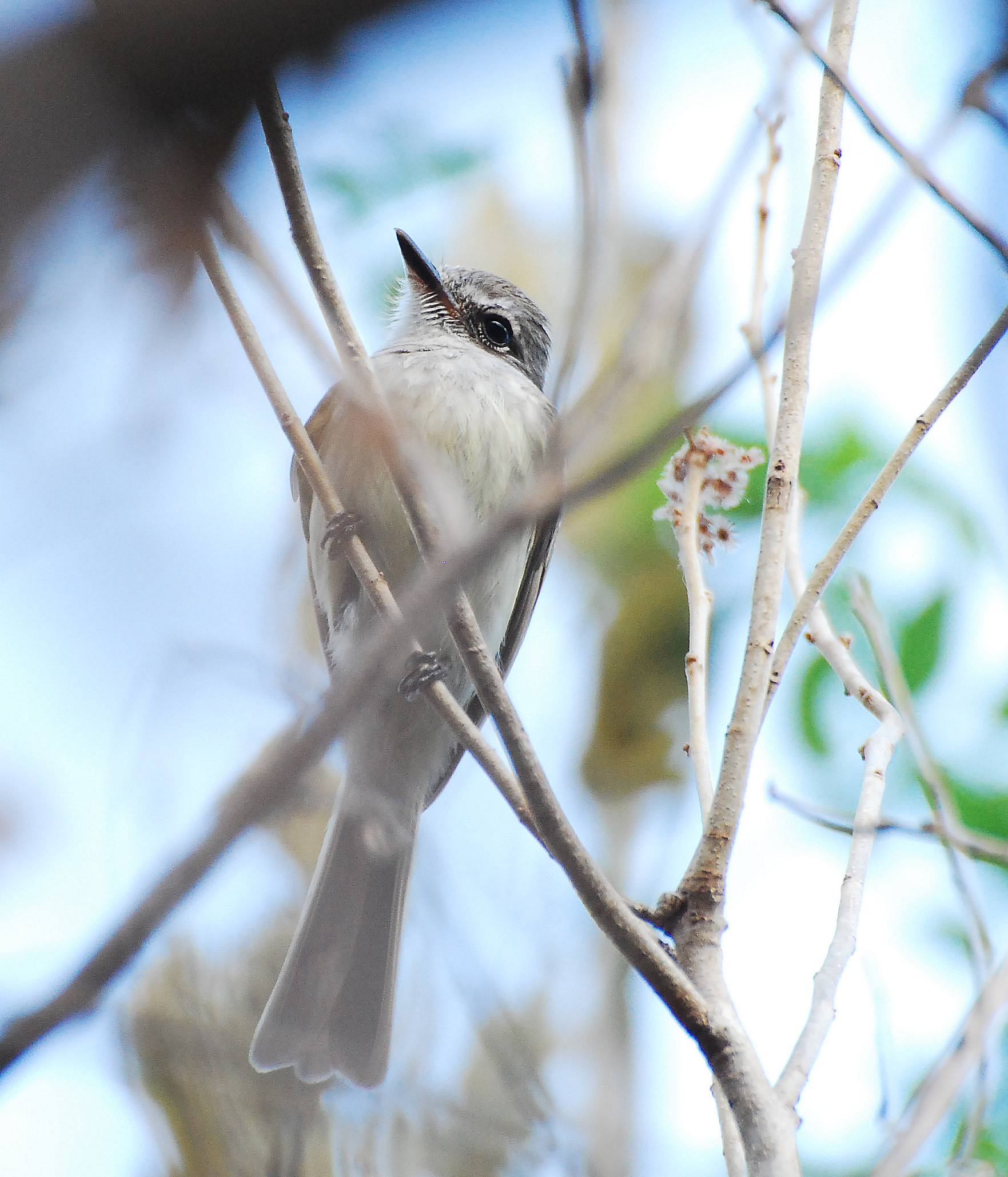 Flammulated Flycatcher (Deltarhynchus flammulatus) at Llano de Horno, Mexico, 080330. Deltarhynchus flammulatus.